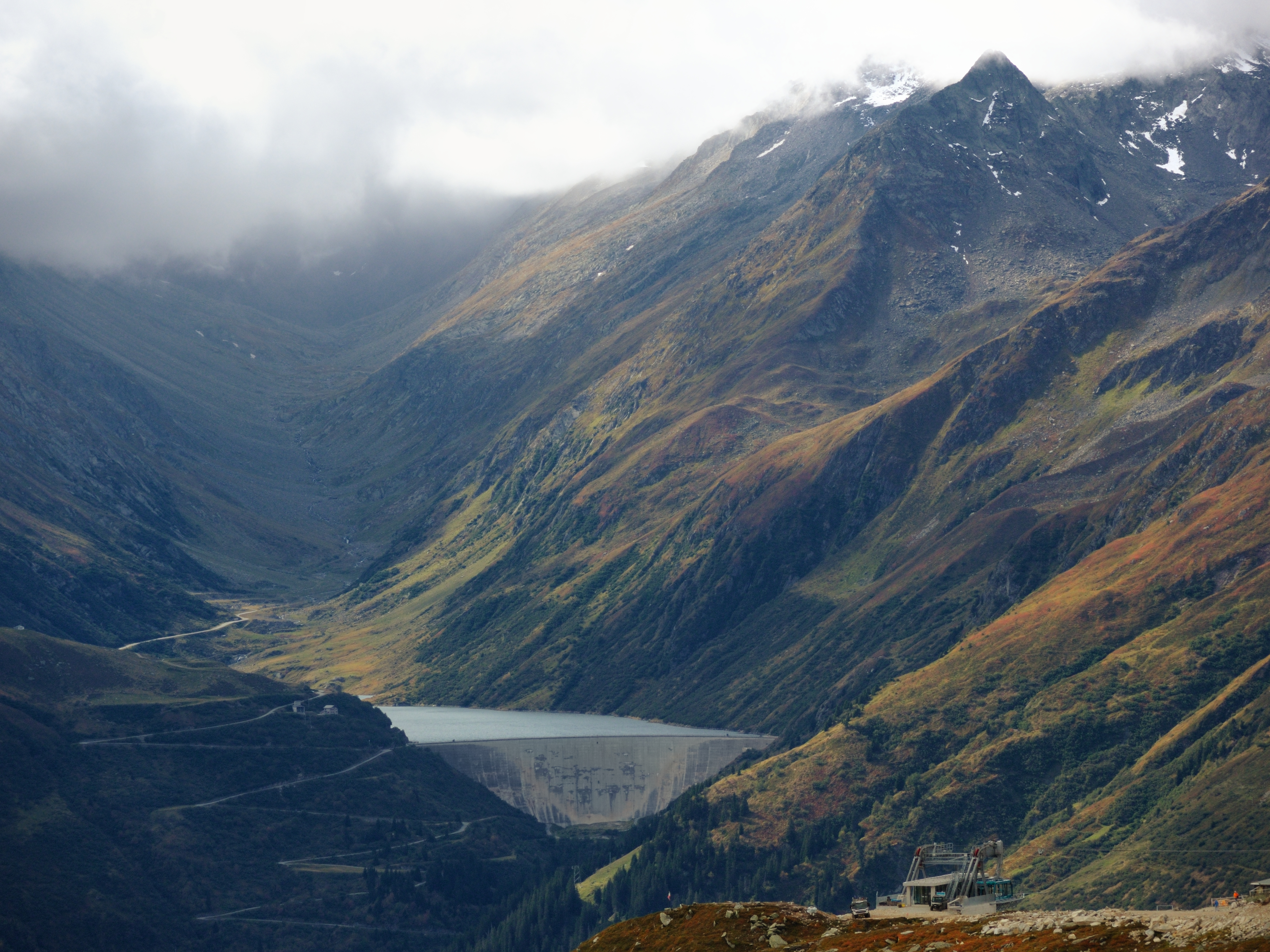 Val Nalps from Gendusas Dadens (Disentis). Note the Cuolm da Vi aerial tramway in the foreground right